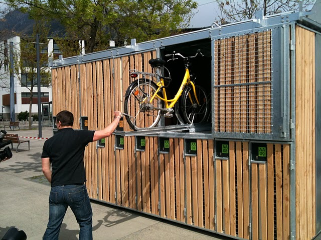 The effort to lift the bike up is not important.